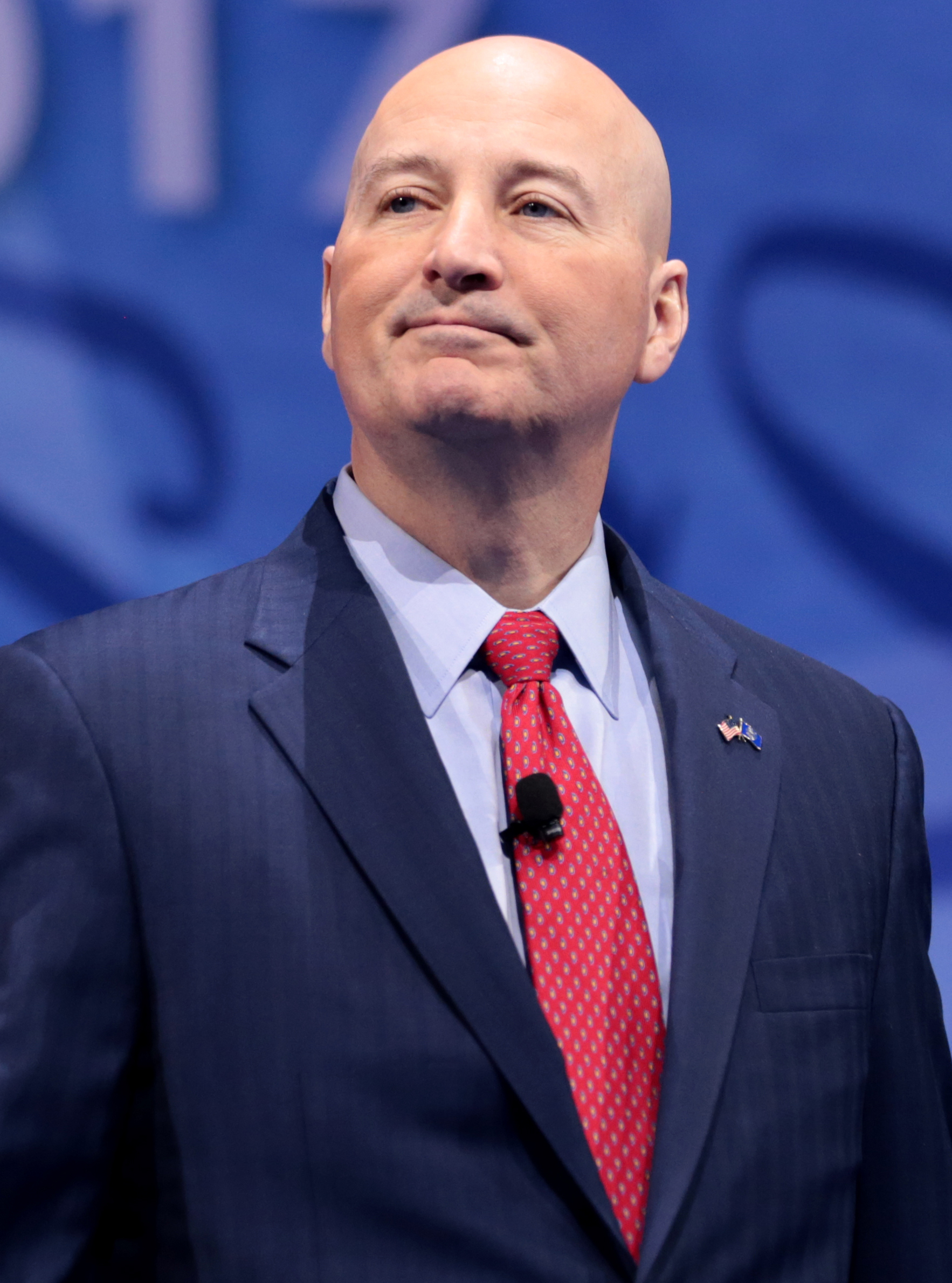 Pete Ricketts speaking at the 2017 CPAC in National Harbor, Maryland.